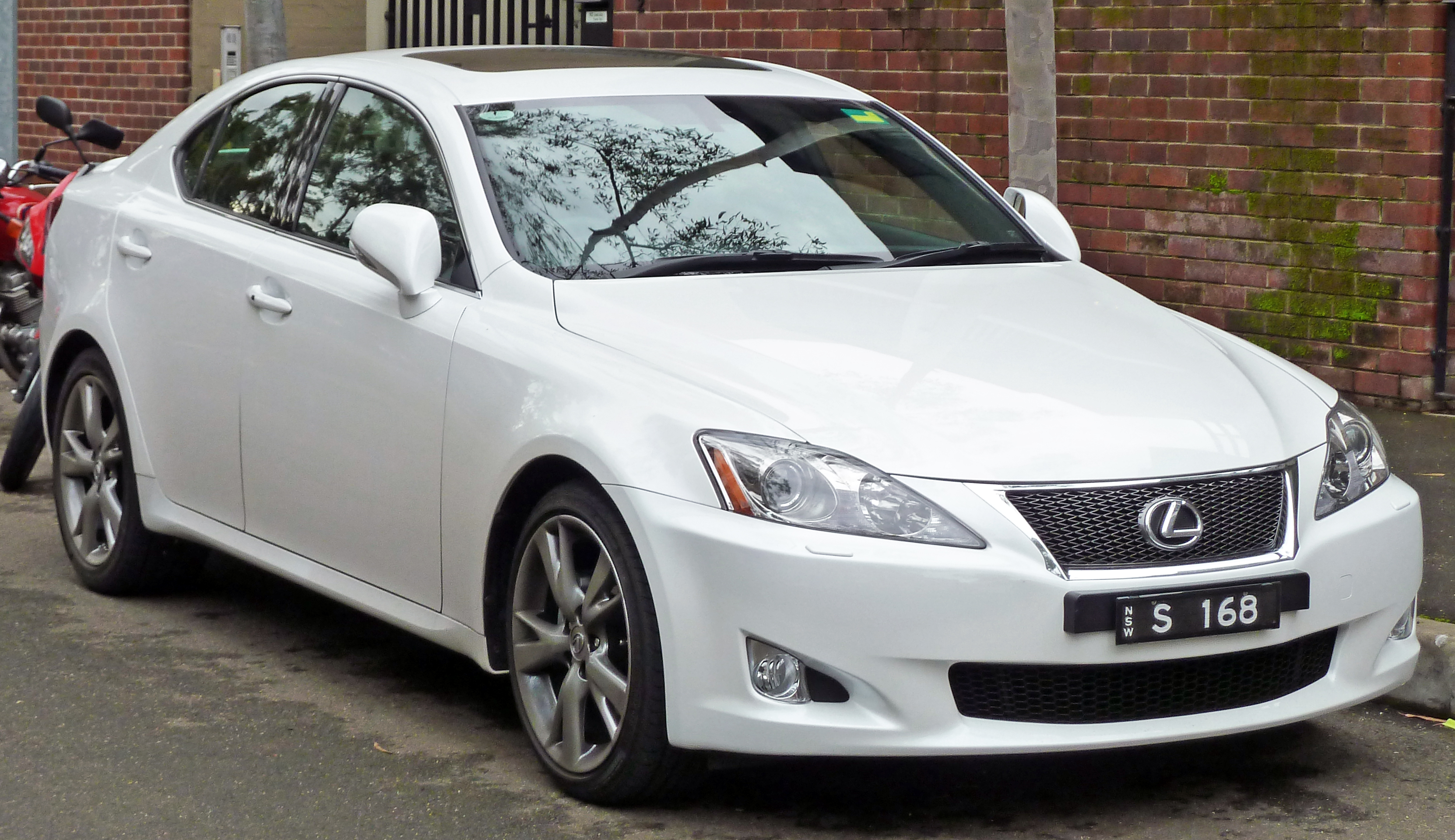 2010 Lexus IS 250 (GSE20R) Prestige (with F Sport Package) sedan. Photographed in Zetland, New South Wales, Australia.